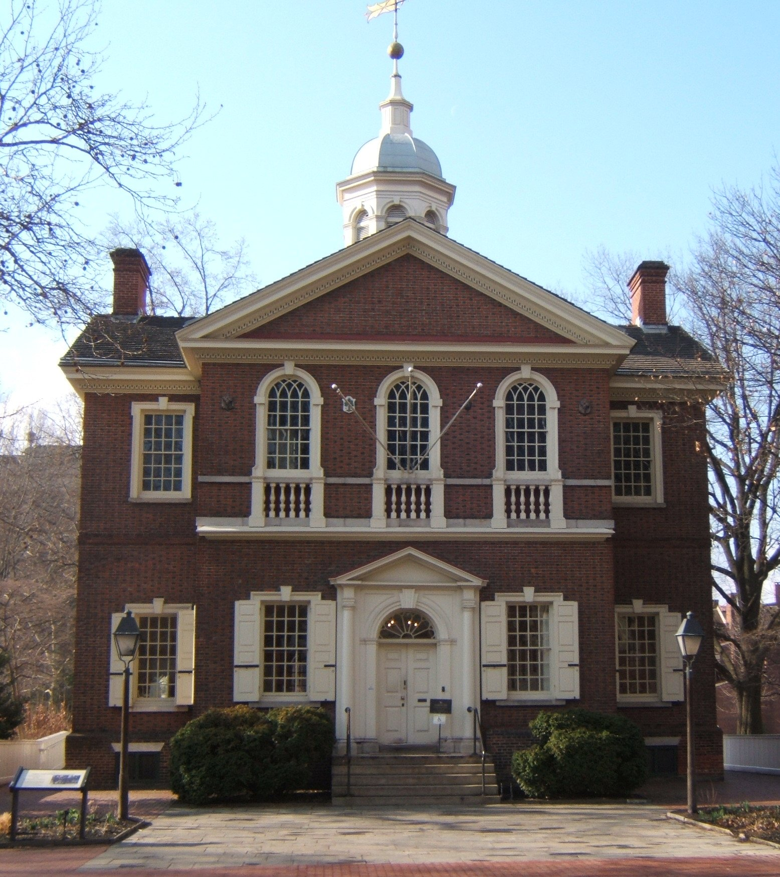 Carpenters’ Hall, built 1770-1774, by the Carpenters’ Company of the City and County of Philadelphia (still the owner), meeting place of the First Continental Congress, Autumn, 1774, first home of the Bank of the United States, 1791, and meeting place of many other early American organizations. Architect Robert Smith, in the Georgian style. Street address: 320 Chestnut Street, Philadelphia, PA 19106. National Register of Historic Places and National Historic Landmark, 1970. Object location39° 56′ 53.16″ N, 75° 08′ 49.92″ W